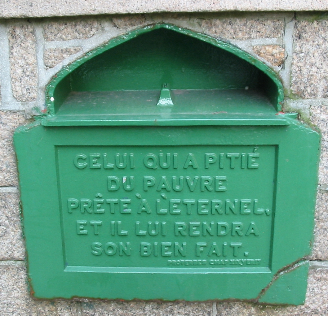 Jersey